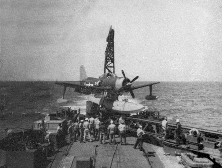 A Curtiss SC-1 Seahawk is prepeared for launching aboard the U.S. Navy cruiser USS Wichita (CA-45) during a shore bombardement of Okinawa, Japan, March-May 1945.